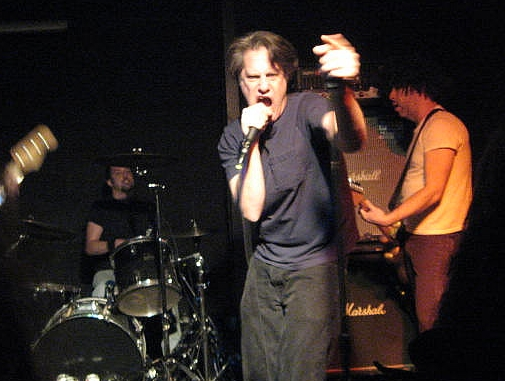 John Brannon with Easy Action. Mac's Bar, Lansing 11/8/08